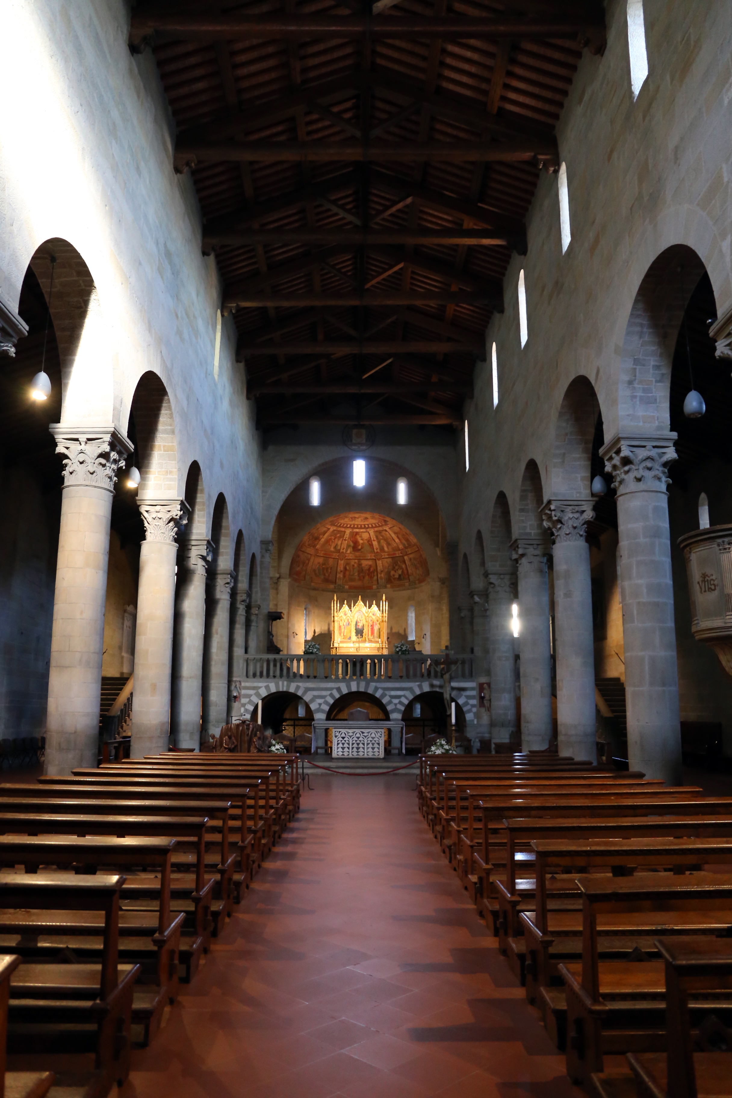 Duomo (Fiesole) - Interior